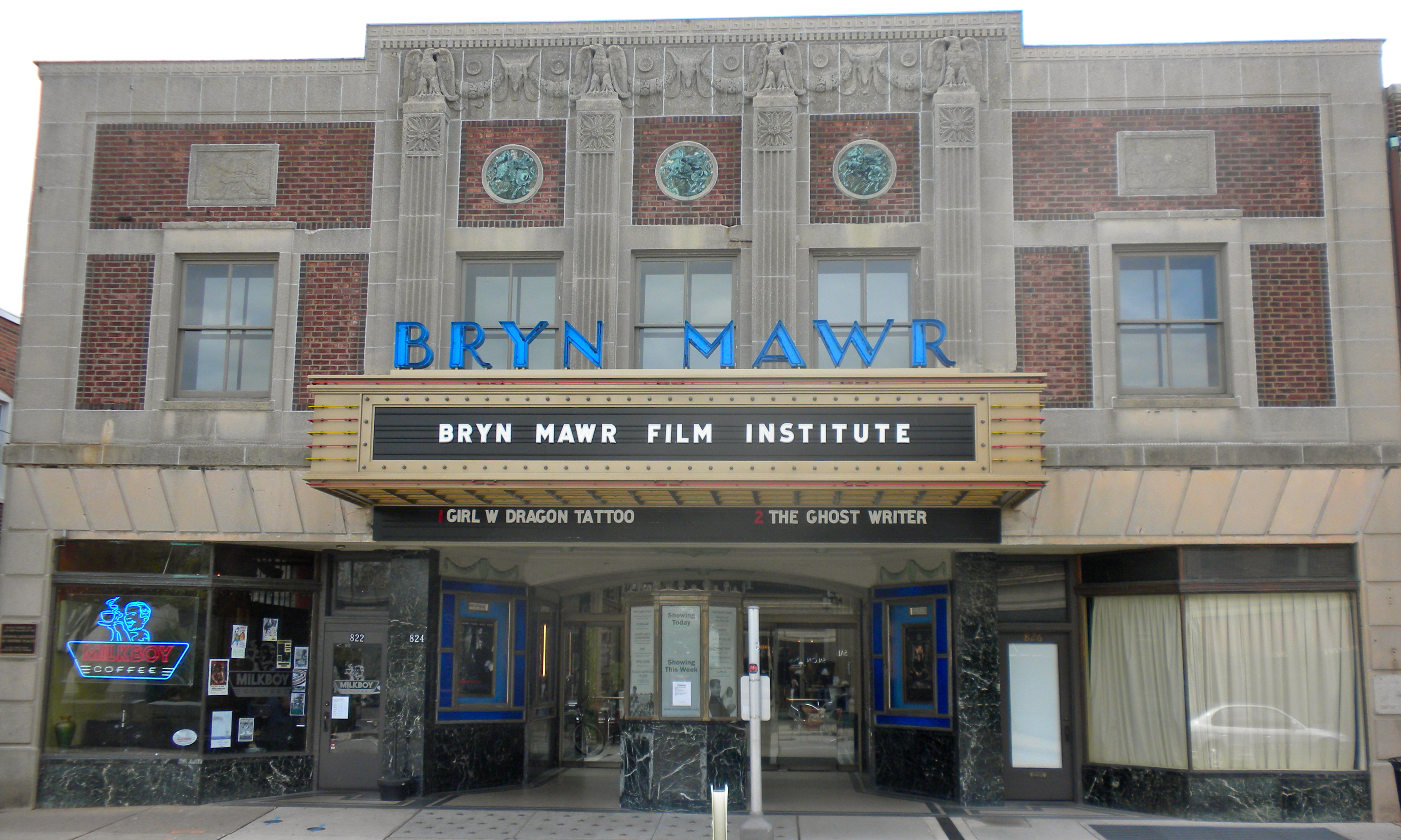 Seville Theatre (exterior) on the NRHP since December 28, 2005. At 822–826 West Lancaster Avenue in the CDP Bryn Mawr (near the College) in Lower Merion Township, Montgomery County, Pennsylvania. Now home to the Bryn Mawr Film Institute.